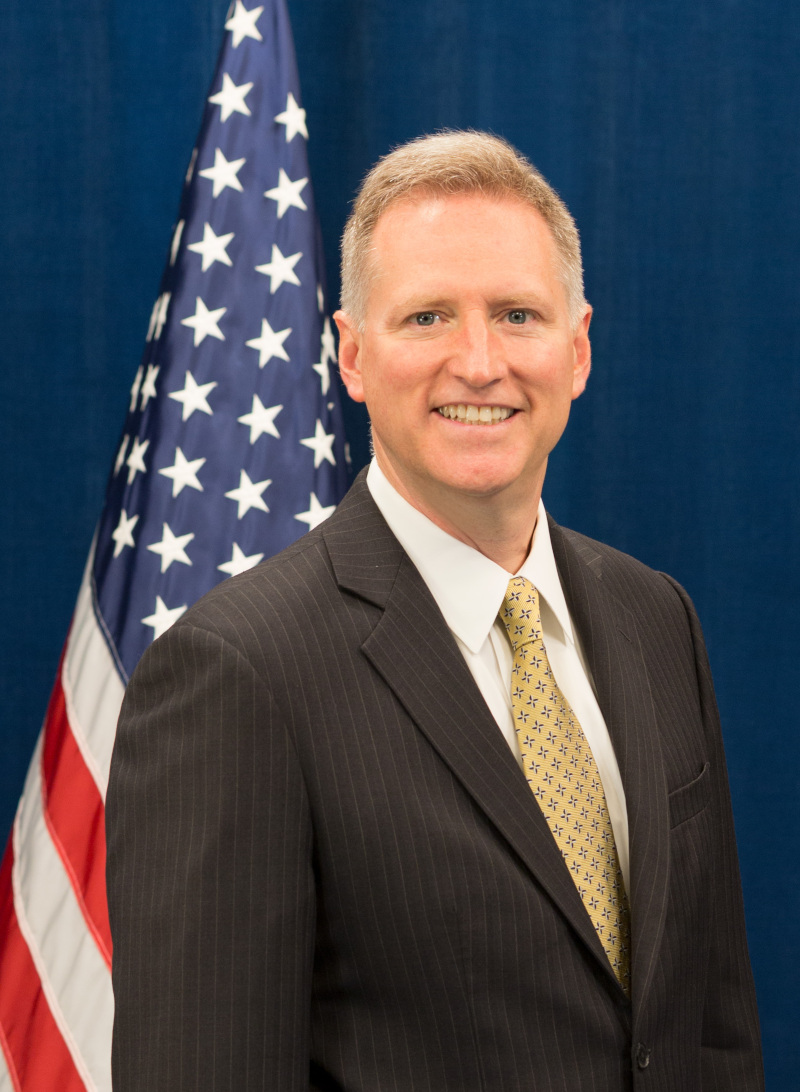 Joseph M. Young, Deputy Chief of Mission, U.S. Embassy Tokyo.